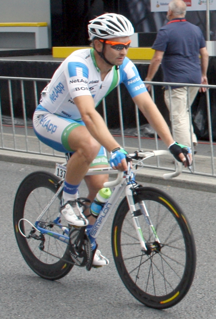 André Schulze after the finish of the World Ports Classic 2012 in Rotterdam